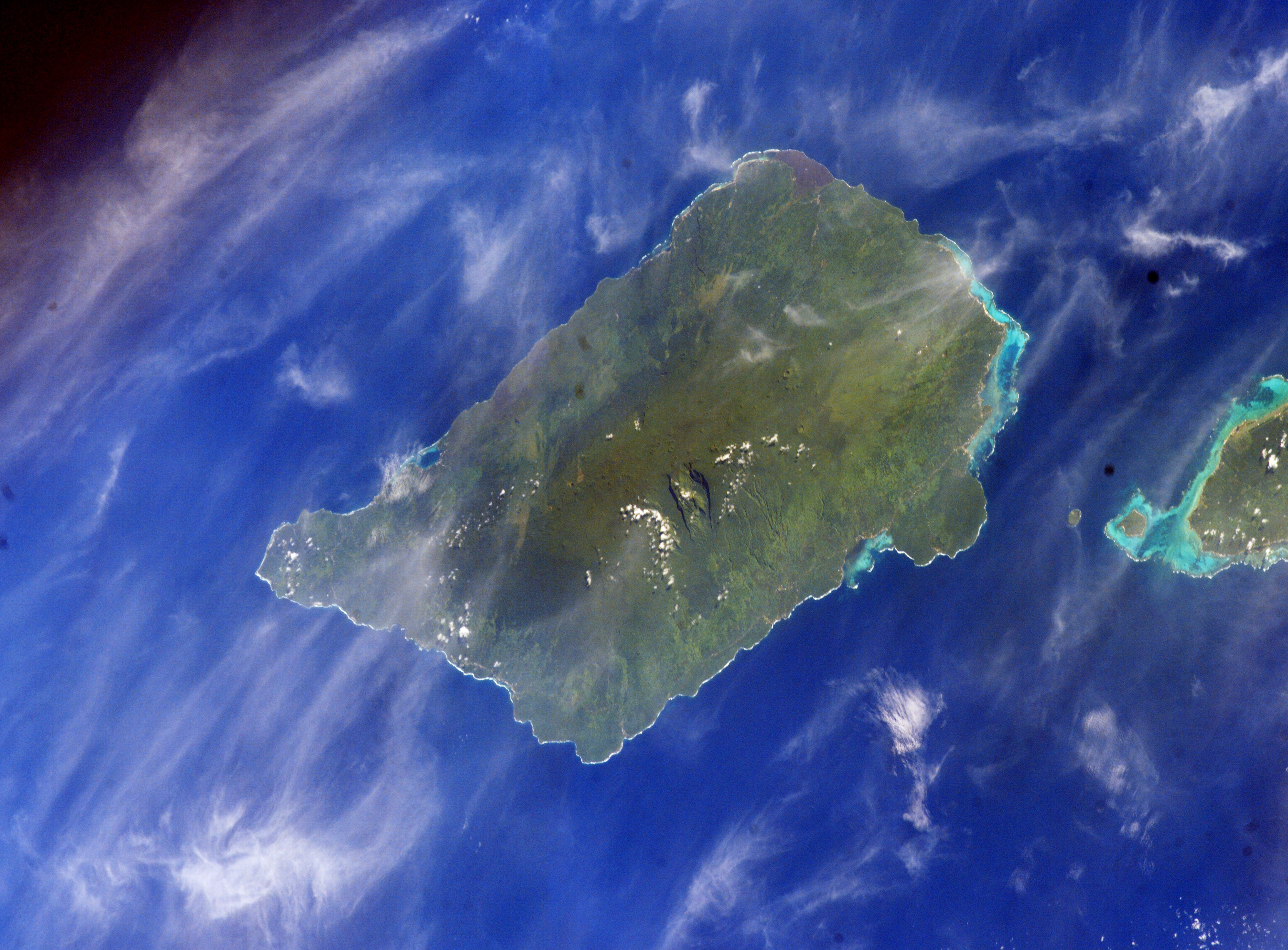 Savaii Island, Samoa